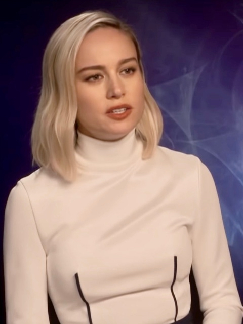 Brie Larson at an interview for Captain Marvel